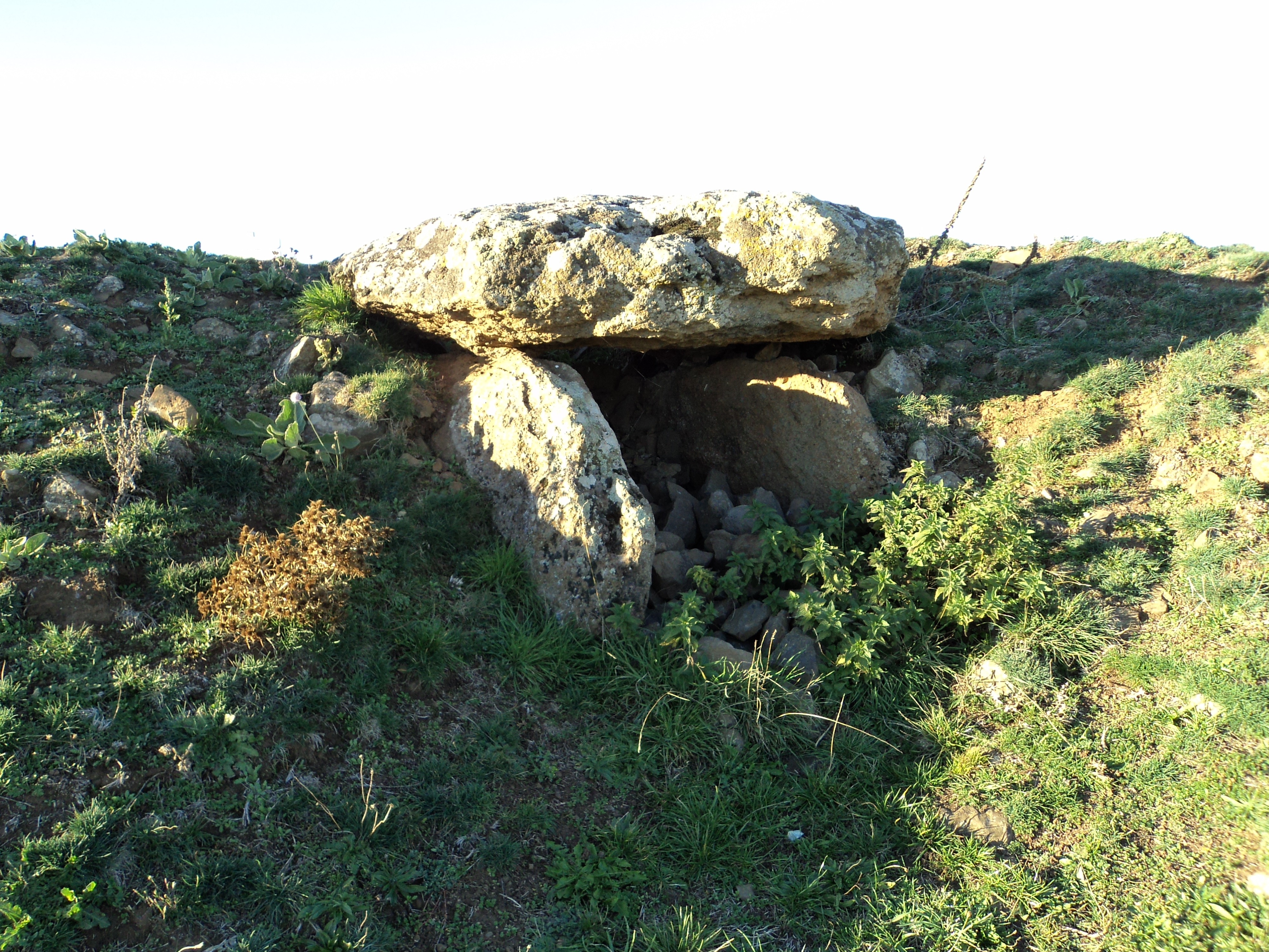 Object location45° 02′ 35.88″ N, 3° 06′ 54.36″ E